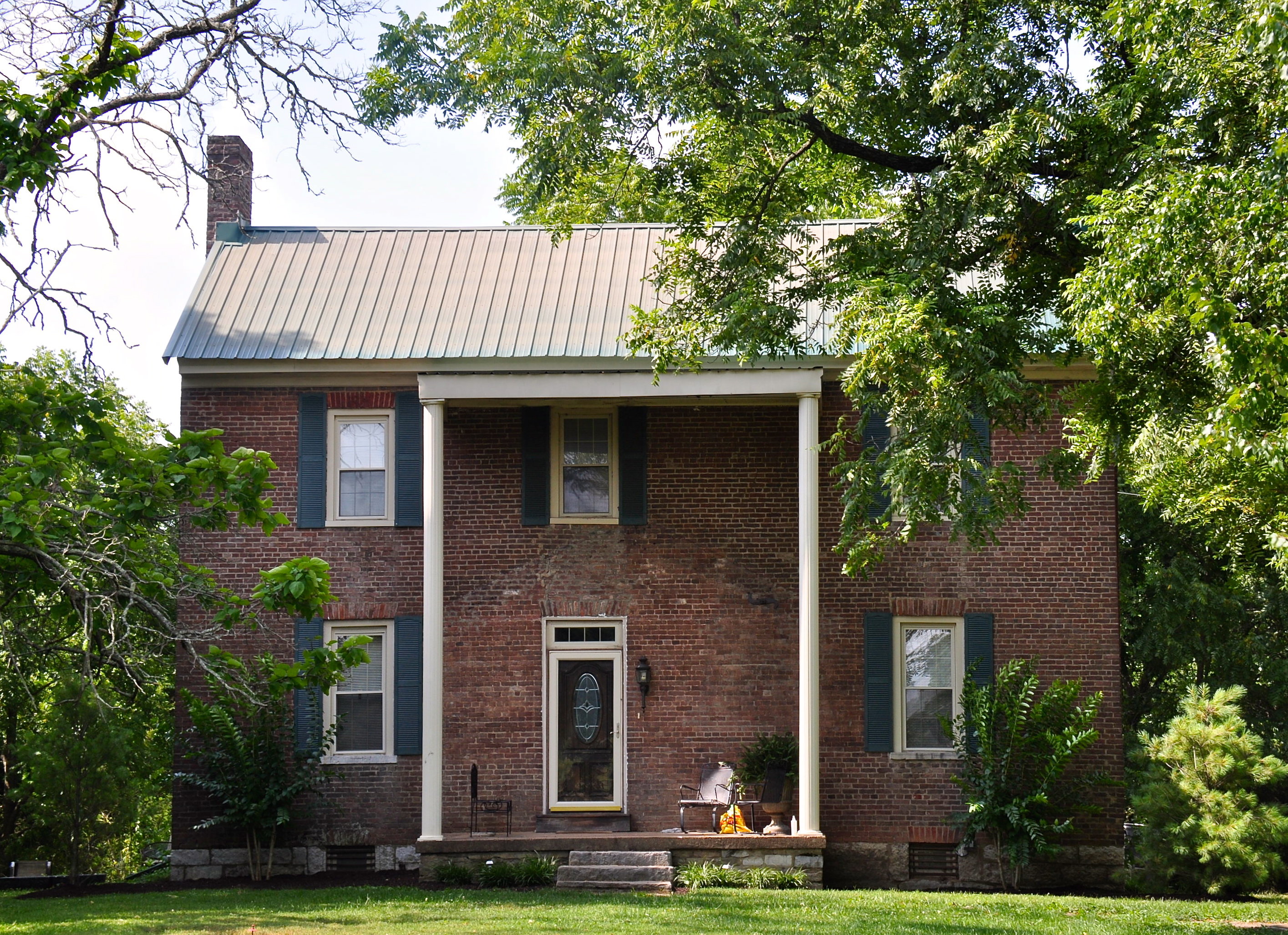 John Frost House, Old Smyrna Rd., 1.5 miles (2.4 km) east of Wilson Pike Brentwood